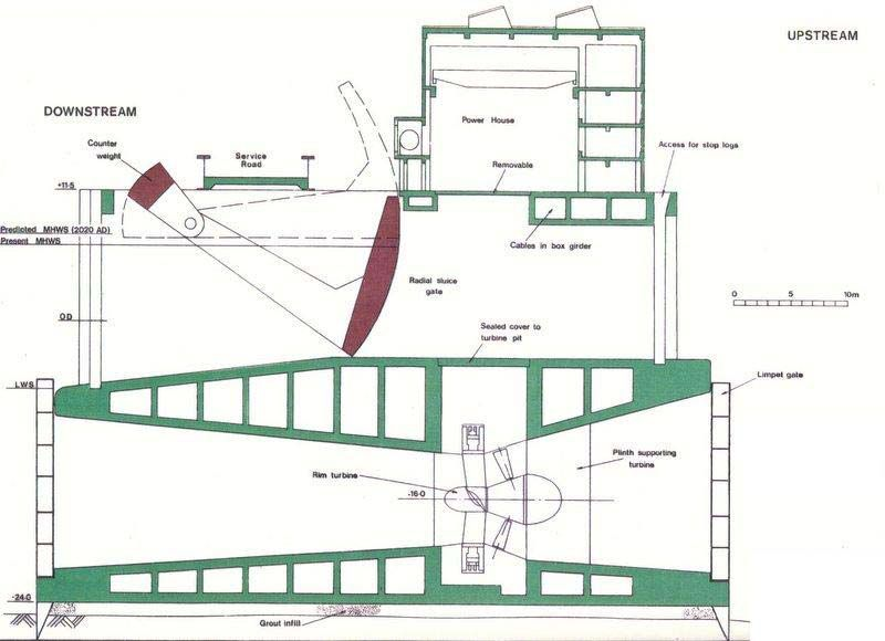 Cross section of the Shoots Barrage, an alternate to the Severn Barrage.